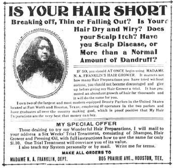 Ad placed in The Houston Informer, June 11, 1921